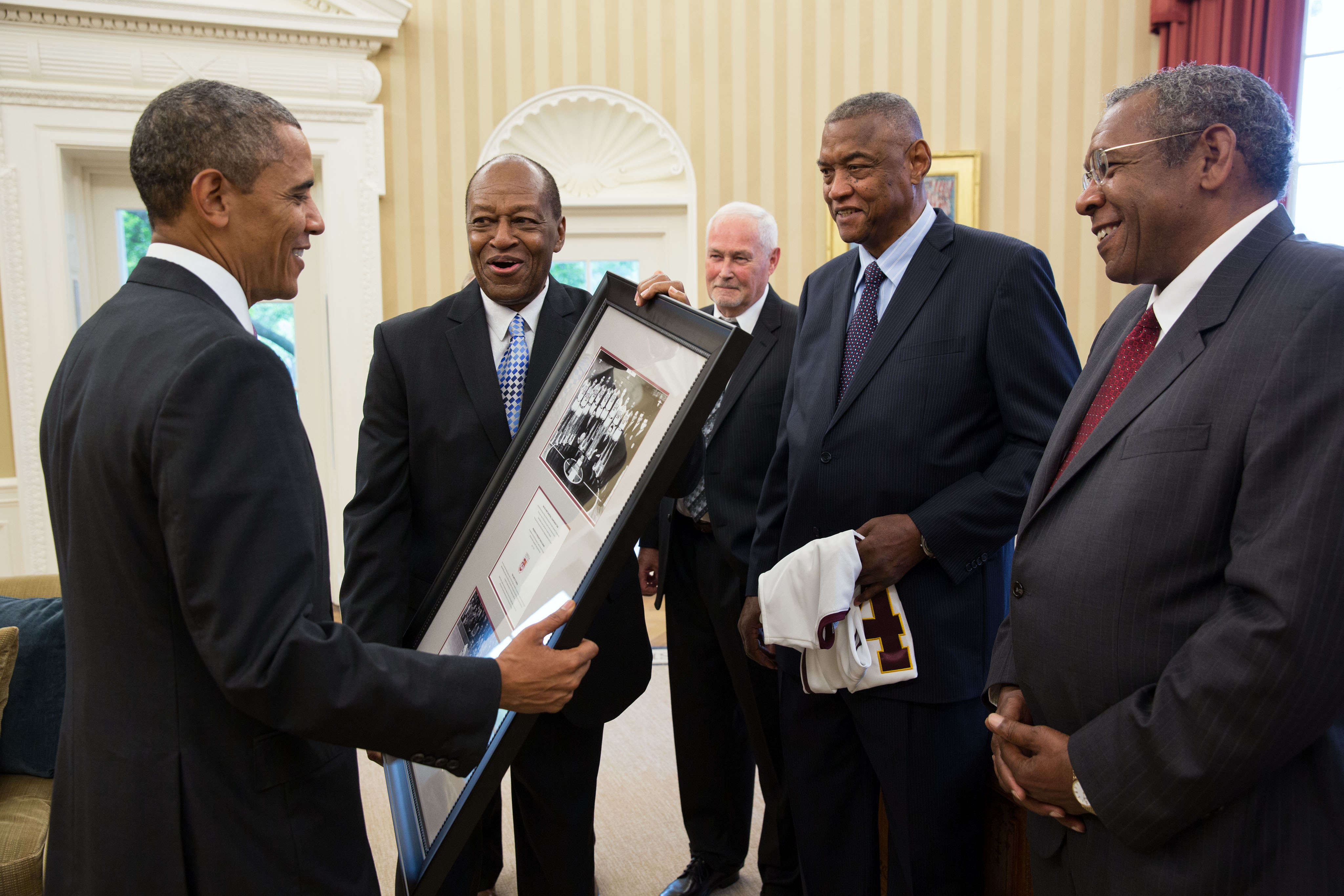 President Barack Obama greets members of the 1963 Loyola University Chicago Ramblers NCAA Championship men's basketball team in the Oval Office, July 11, 2013. (Official White House Photo by Pete Souza)